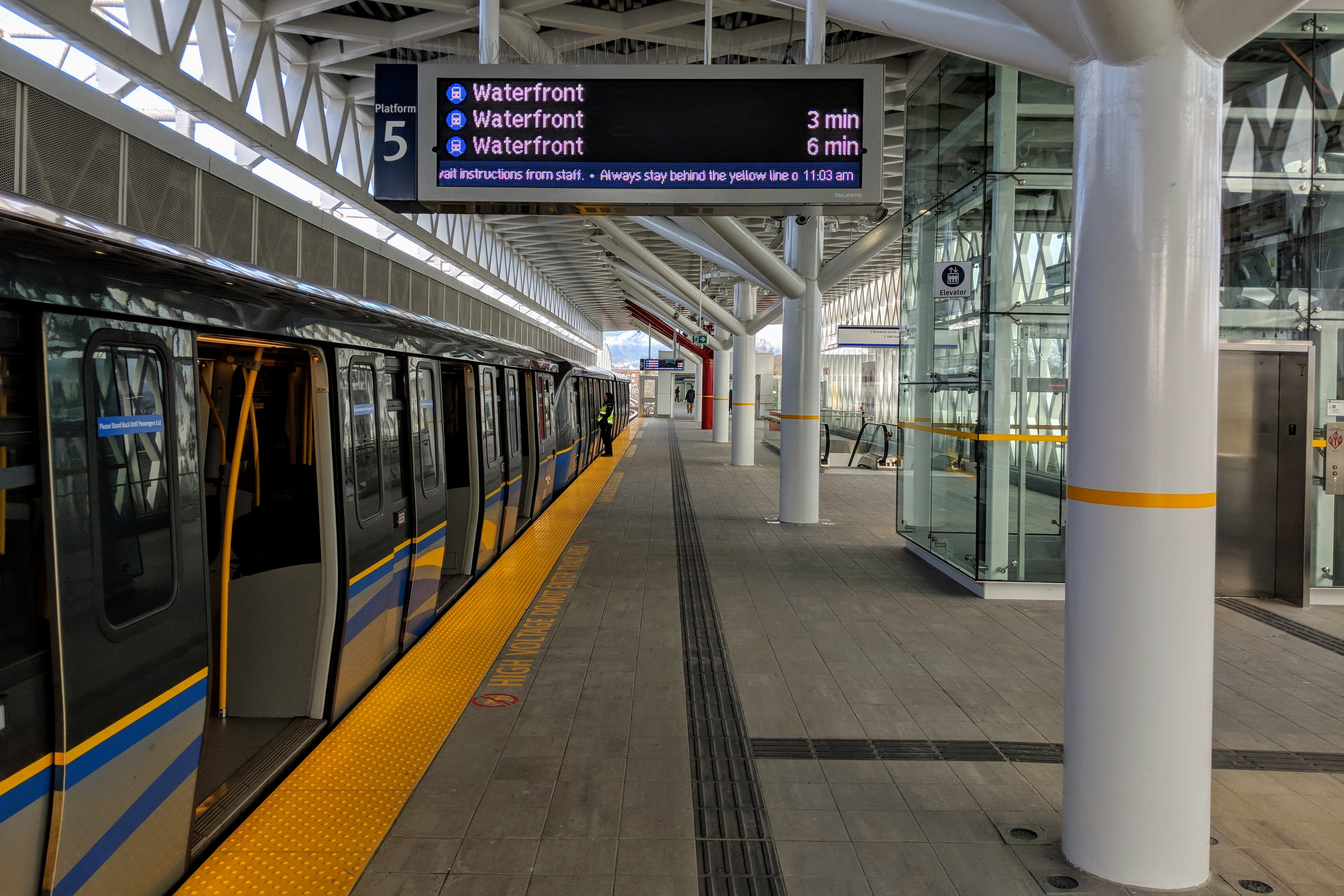 Commercial-Broadway's Platform 5, opened on 2 February 2019.